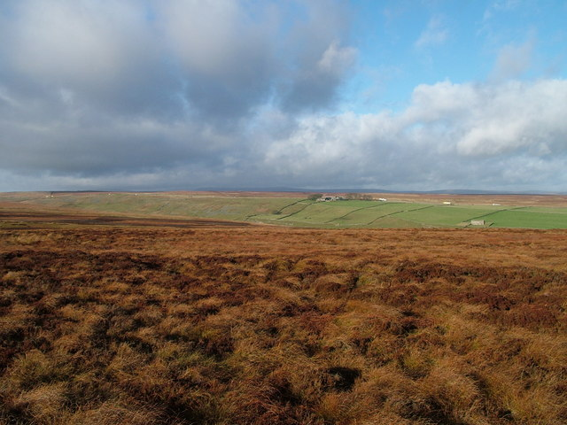 Looking across Bowes Moor to the A66